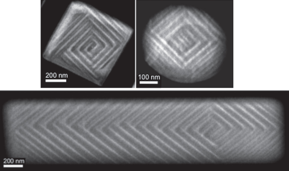 Scanning transmission electron microscopy (STEM) images of the ferroelastic domains that form, on cooling through the Curie temperature, in patterned single crystal BaTiO3 shapes. The vertex point, where domain bundles meet, moves from approximately the geometric center in squares and circles (top) to strongly off-center in oblongs (bottom).